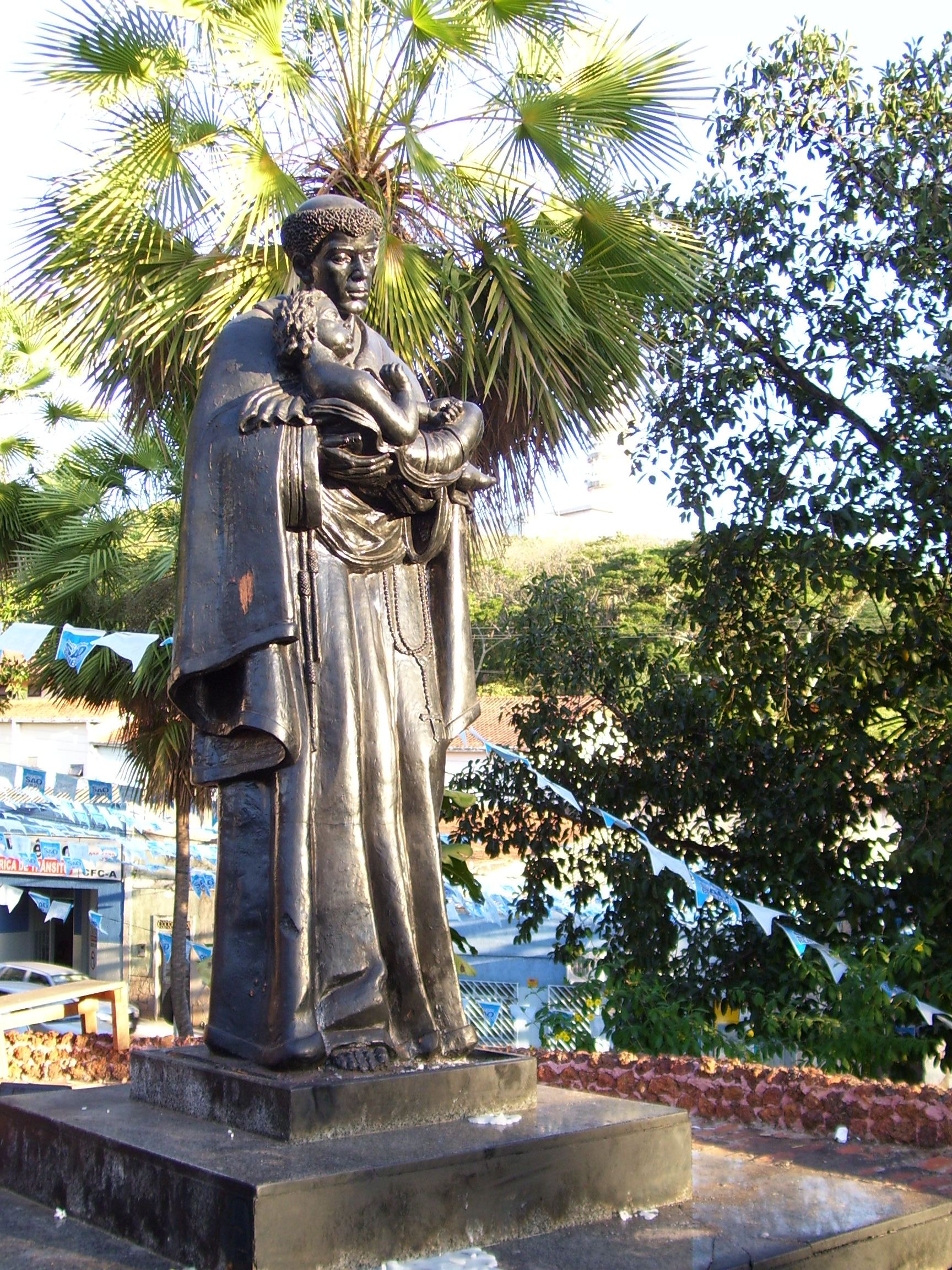 Statue of Saint Benedict the Moor, in the front of the Church of Our Lady of the Rosary and Saint Benedict, Cuiabá, Mato Grosso, Brazil.